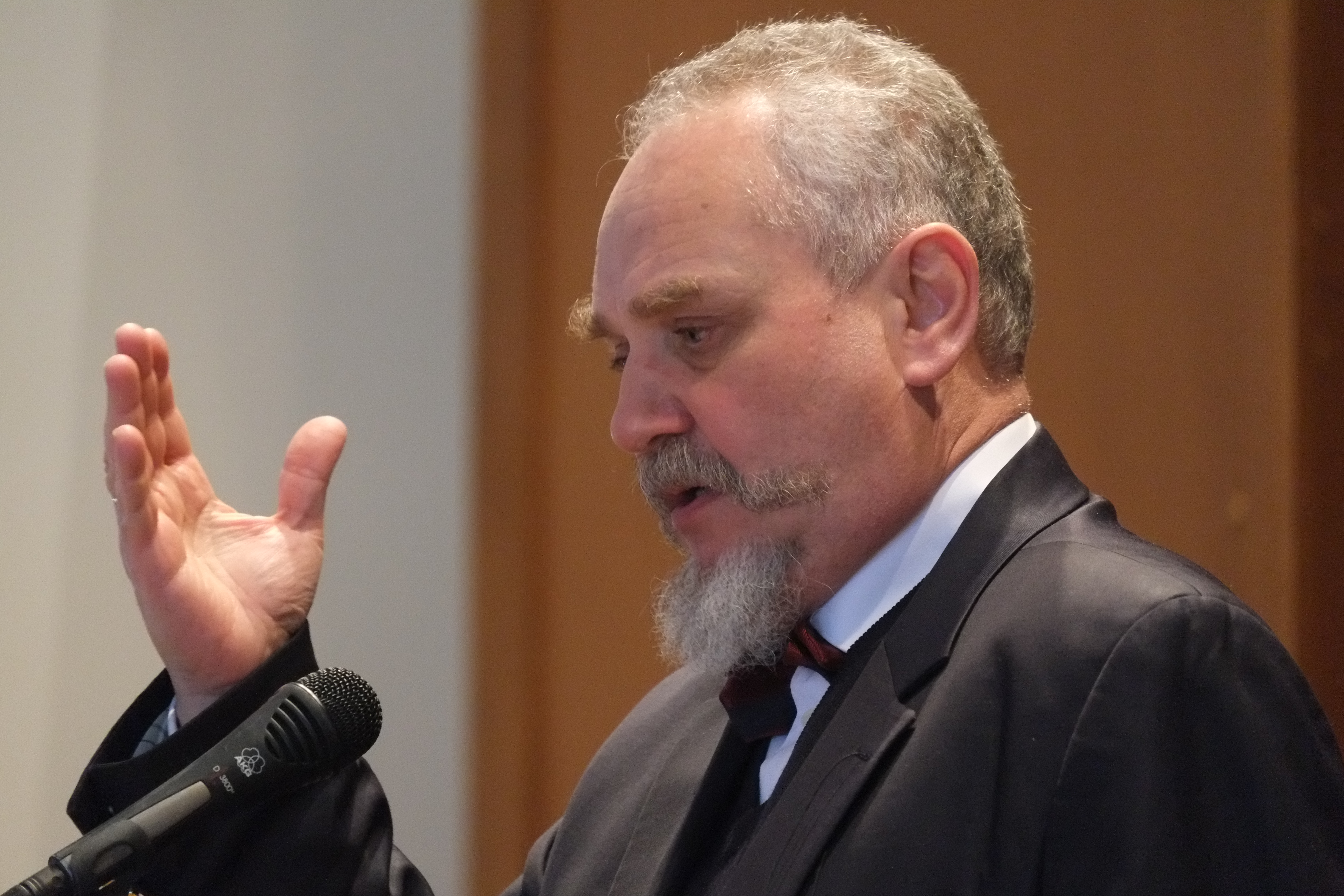 The first session of the intellectuals Congress "Against war, against self-isolation of Russia, against restoration of totalitarism", Moscow, March 19 2014, Large hall of Library For Foreign Literature.